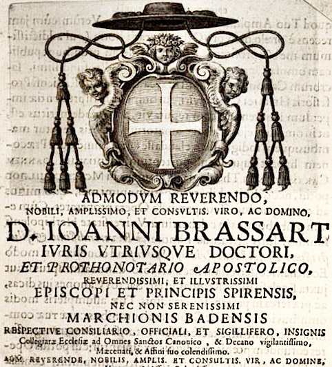 Buchwidmung des Kölner Publizisten Johann Busäus an den Speyerer Weihbischof Johann Brassart (+ 1684)